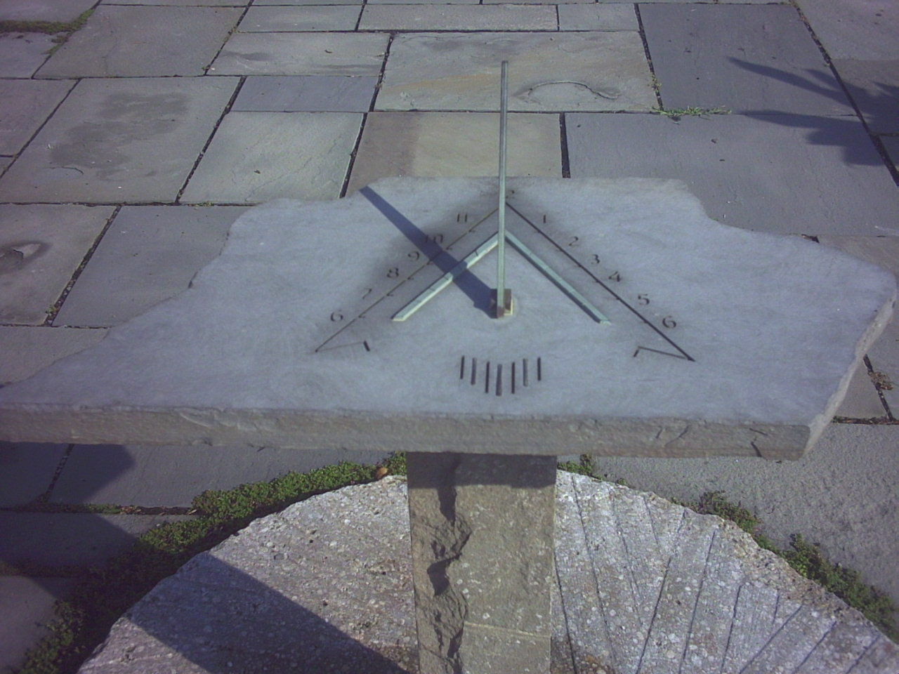 Garden sundial at 9:30am in the Robison Herb Garden, part of the F. R. Newman Arboretum at the Cornell University Plantations.